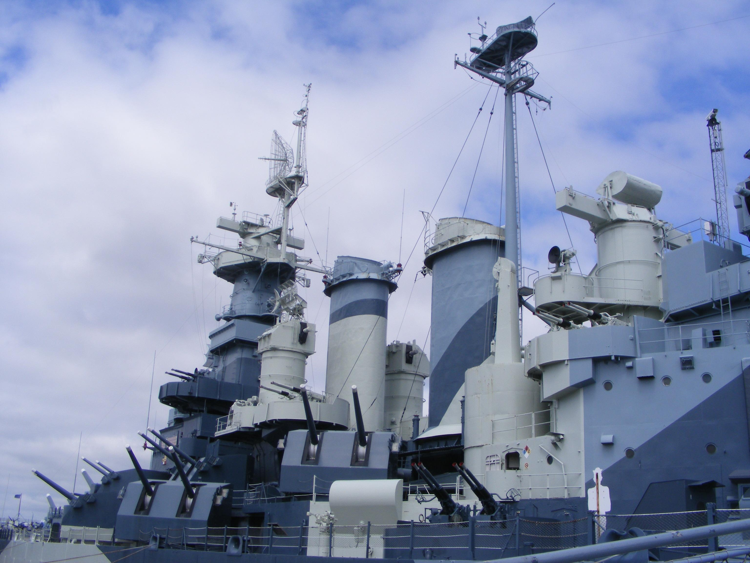 A shot of part of USS North Carolina from the side.